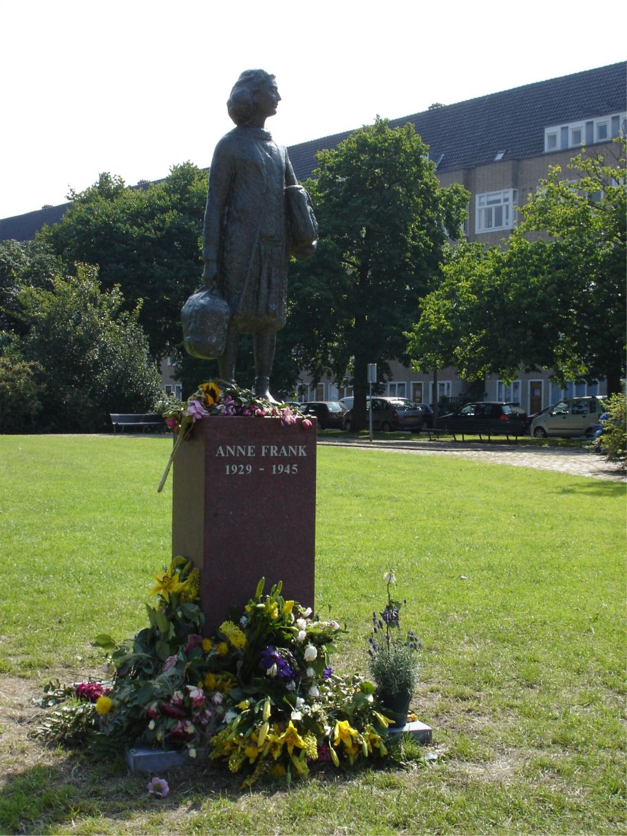 Statue of Anne Frank by Jet Schepp, Merwedeplein, Amsterdam placed in 2005